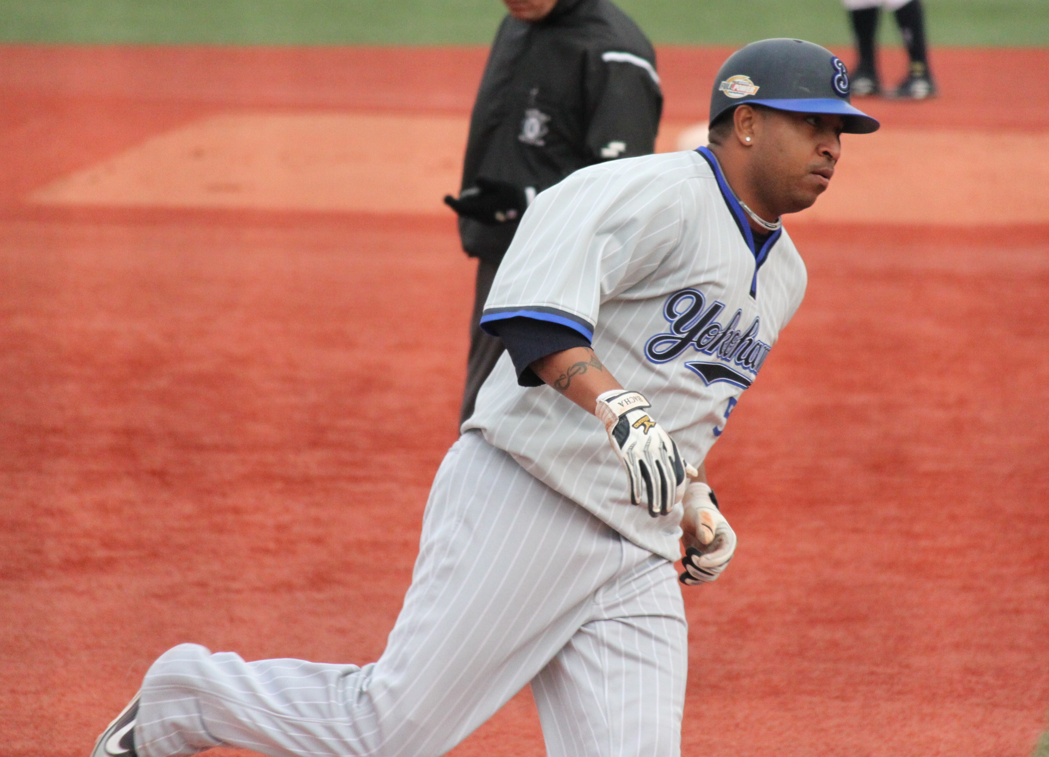 José Castillo, infielder of the Yokohama BayStars, at Meiji Jingu Stadium.